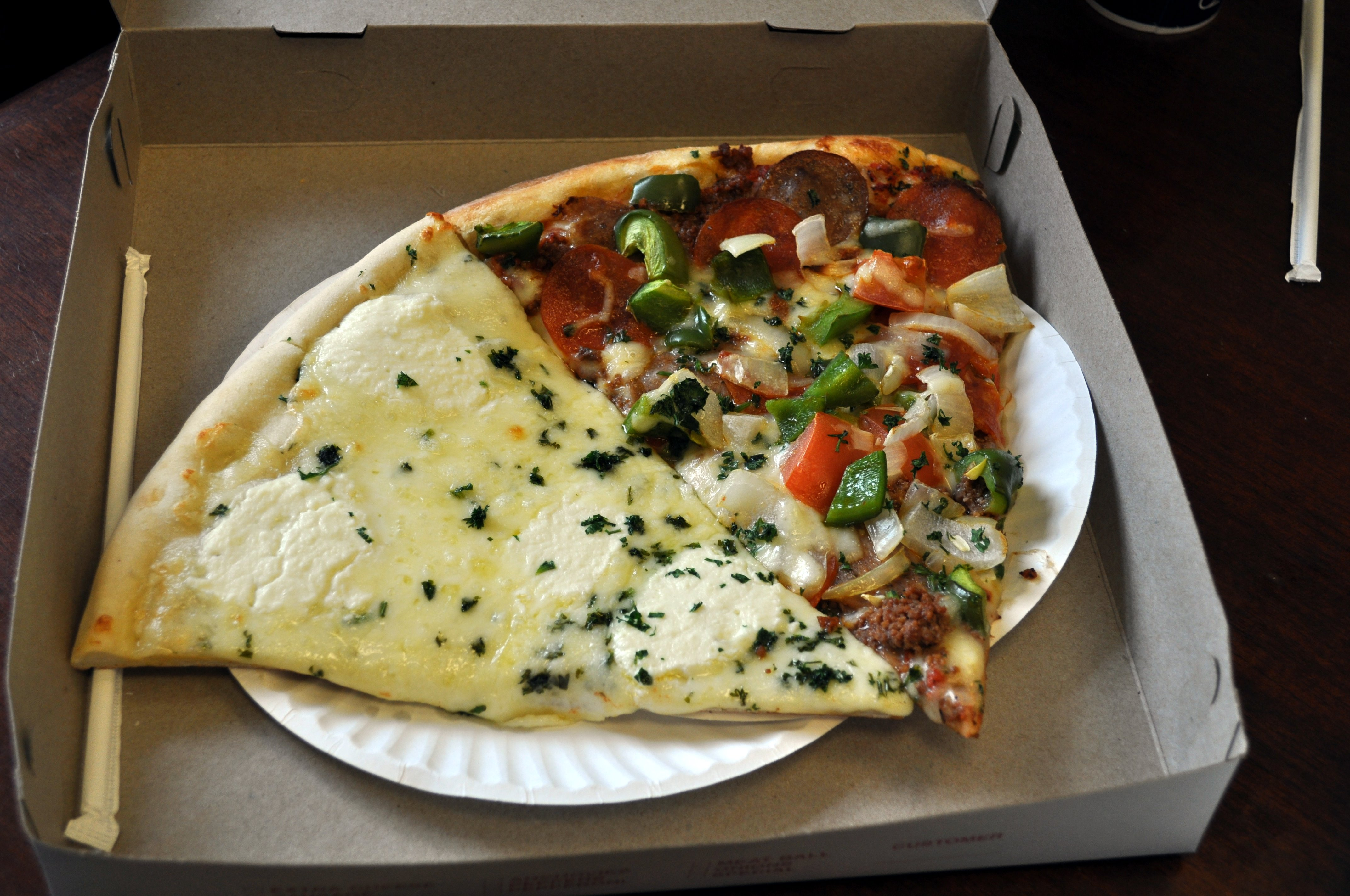 White slice and supreme slice from Giuliano's at Broad St.